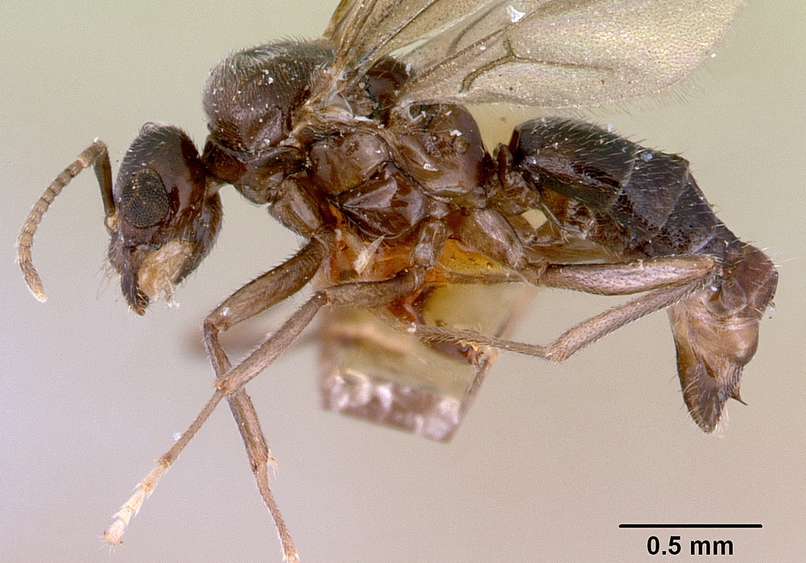 Profile view of ant Acropyga myops specimen casent0172017.